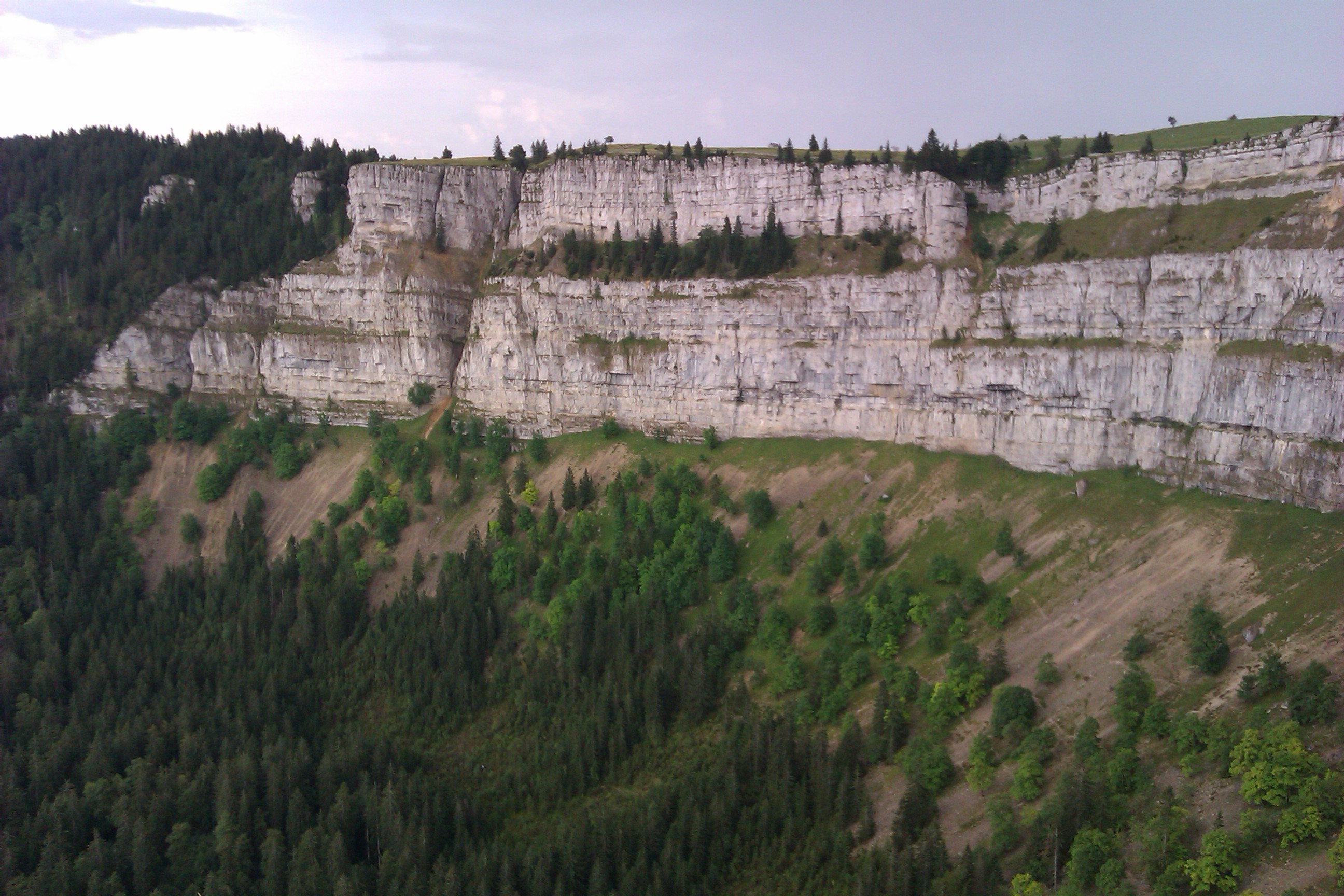 Creux du Van